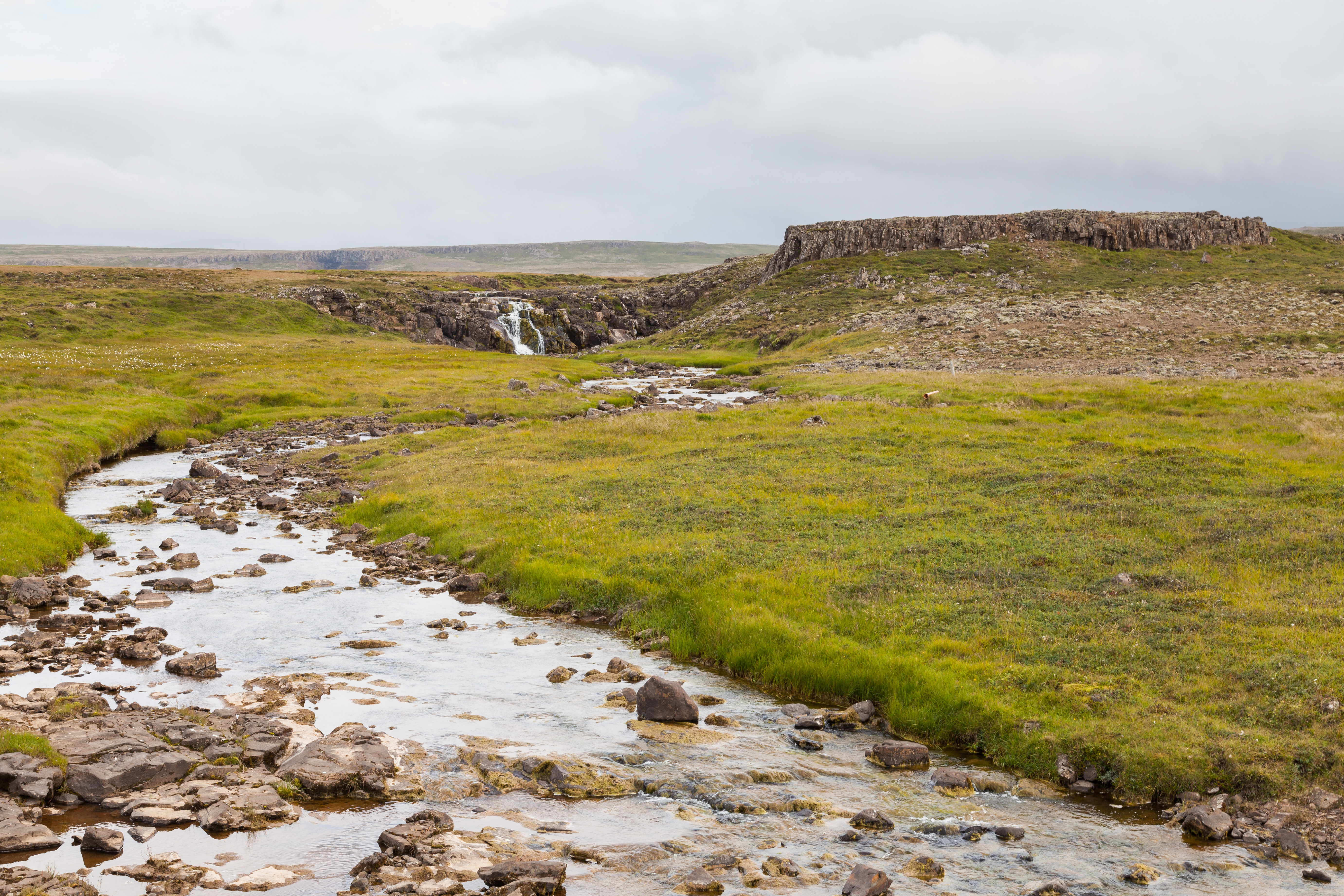 Grundarfjörður, Vesturland, Iceland